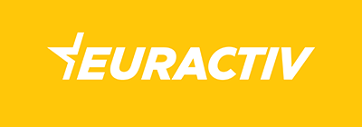 EURACTIV Logo